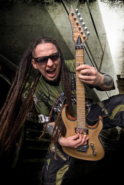 Photo of Zoltan Bathory